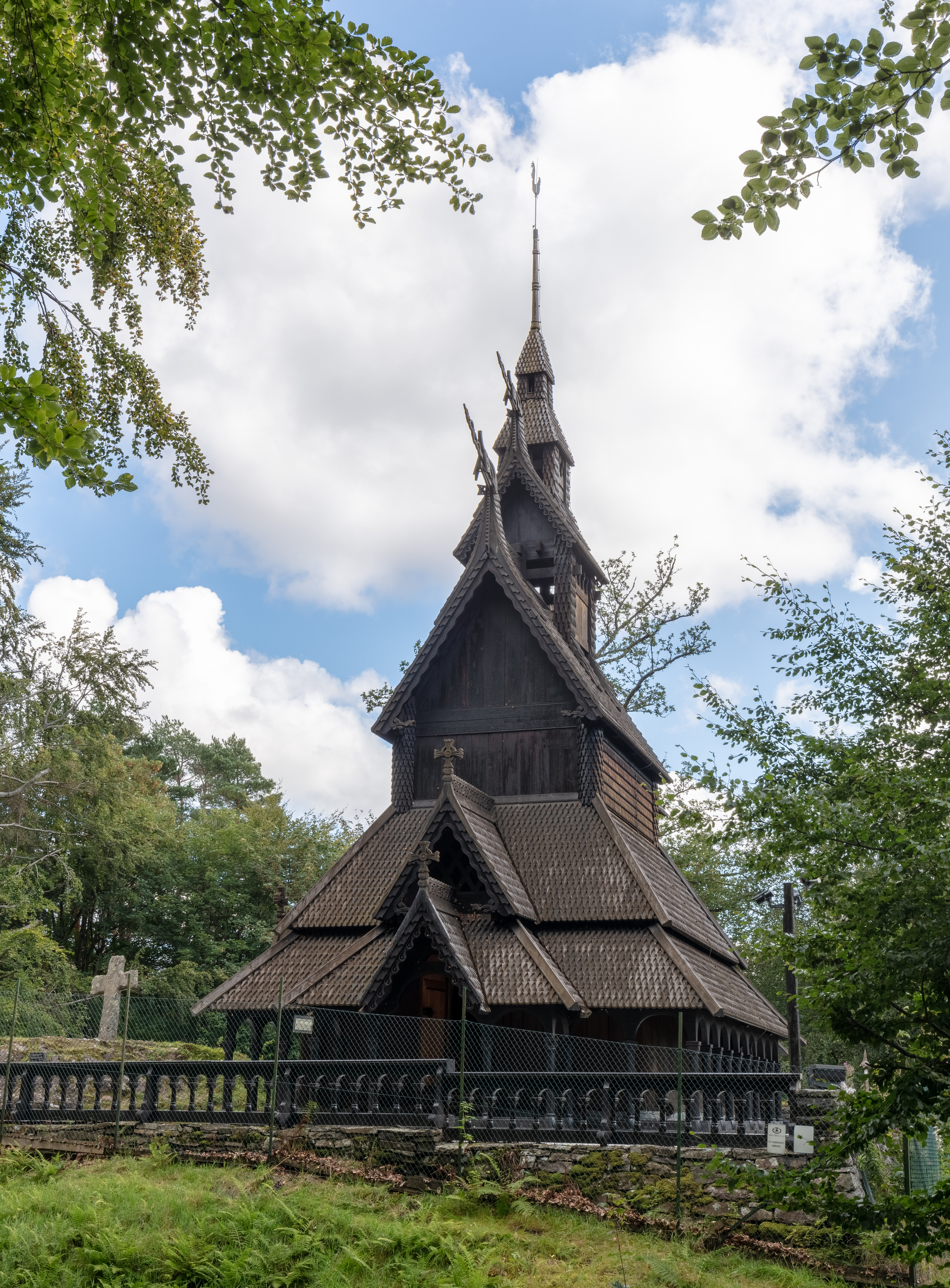 Fantoft stavkirke, Bergen, Norway